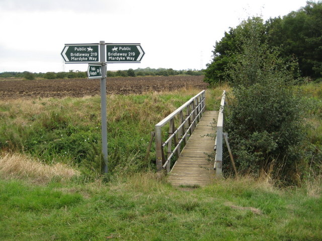 Footbridge over the Mardyke Near Bulphan at the northern end of the Mardyke Way.